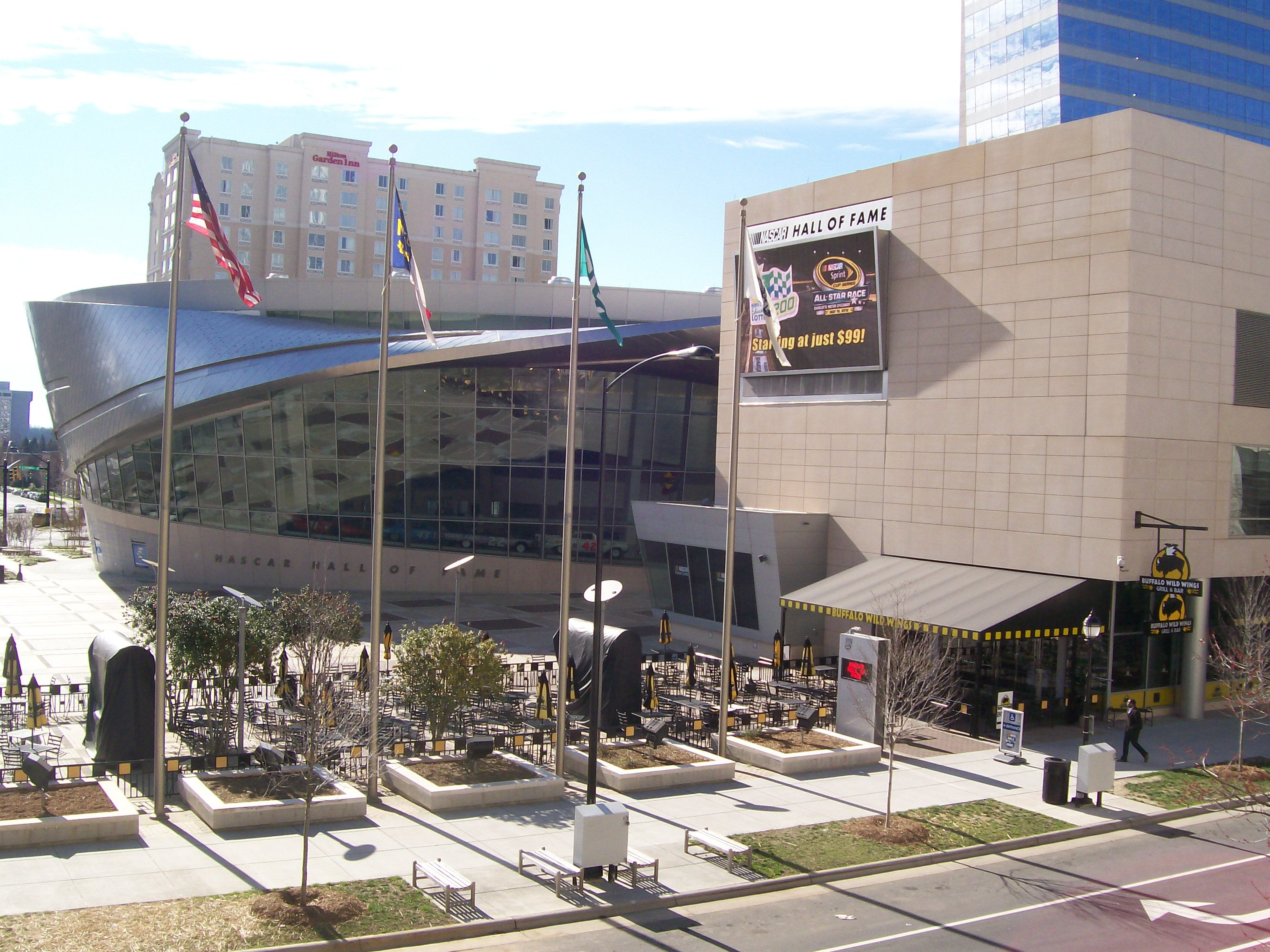 Photo of NASCAR Hall of Fame